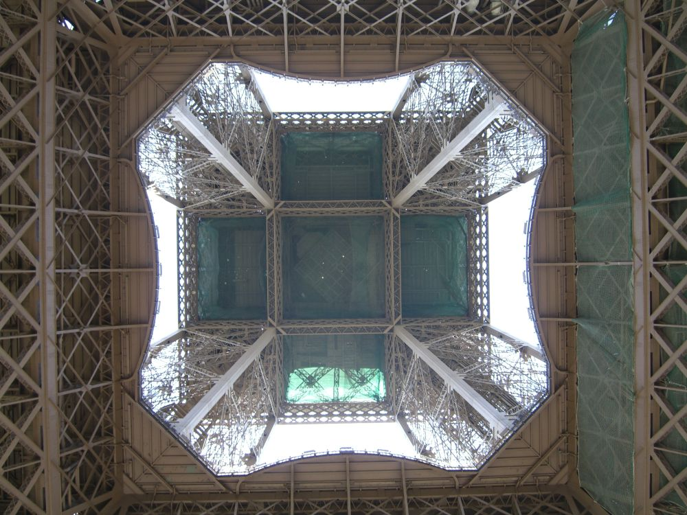 Own photo, taken in June 2006